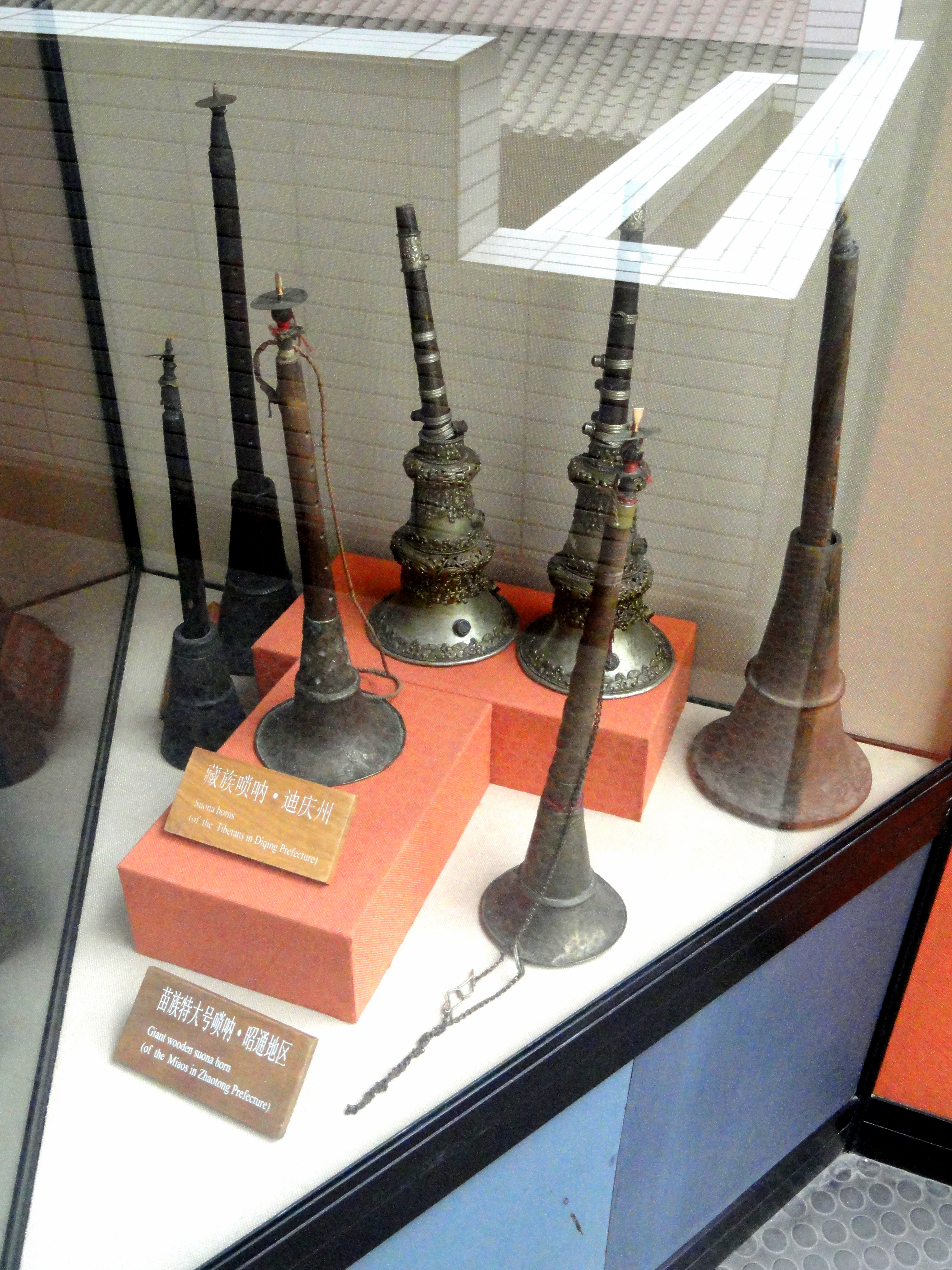 Tibetan and Miao "suona" horns. Musical instruments in the Yunnan Nationalities Museum, Kunming, Yunnan, China.